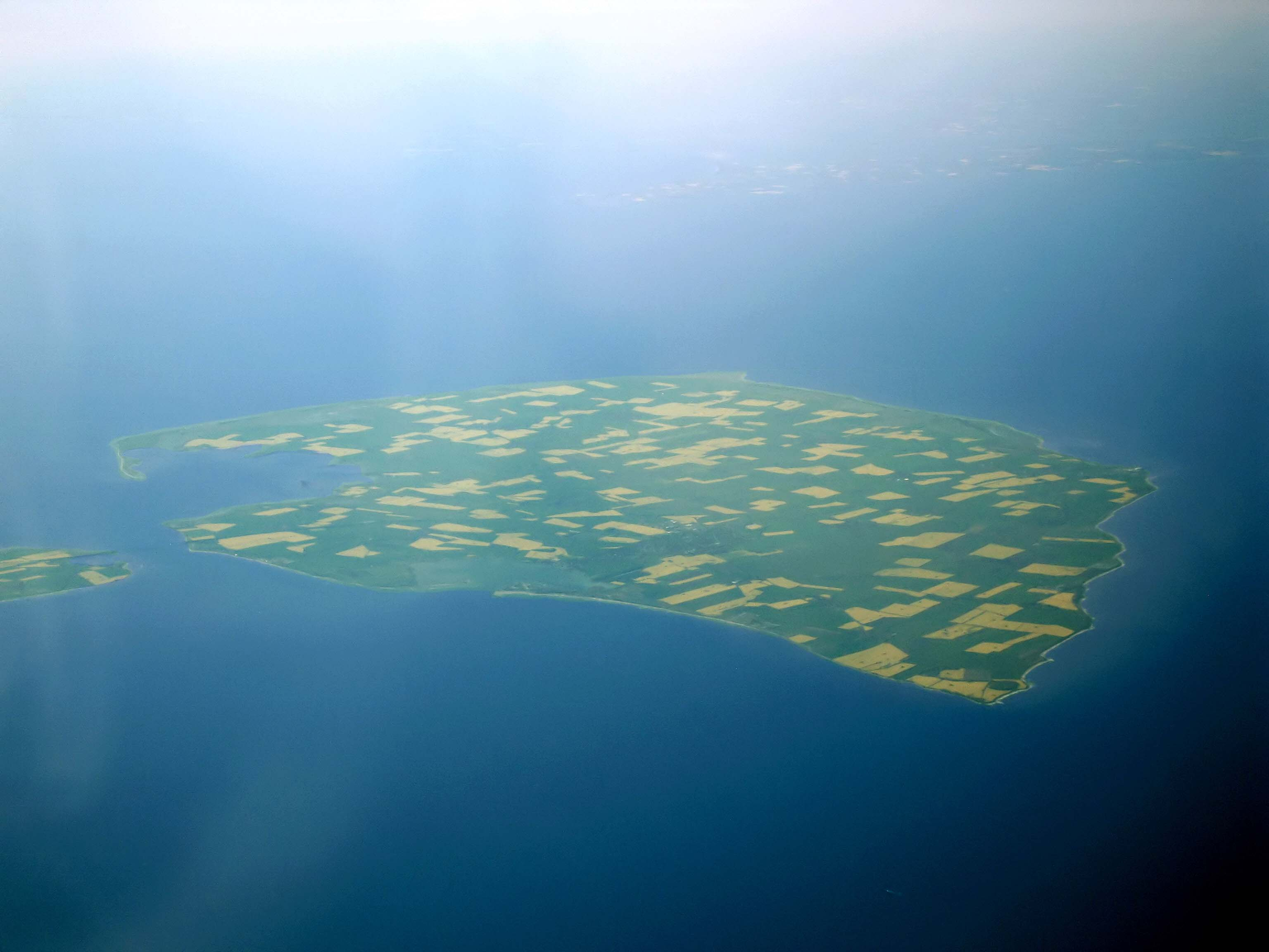 The German island of Fehmarn seen from above.